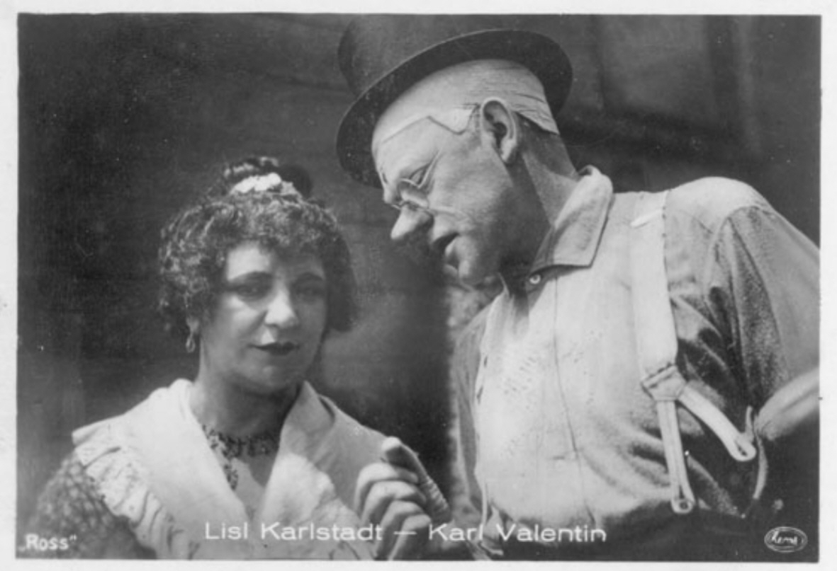 Liesl Karlstadt (1892-1960), German actress, and Karl Valentin (1882-1948), German comedian